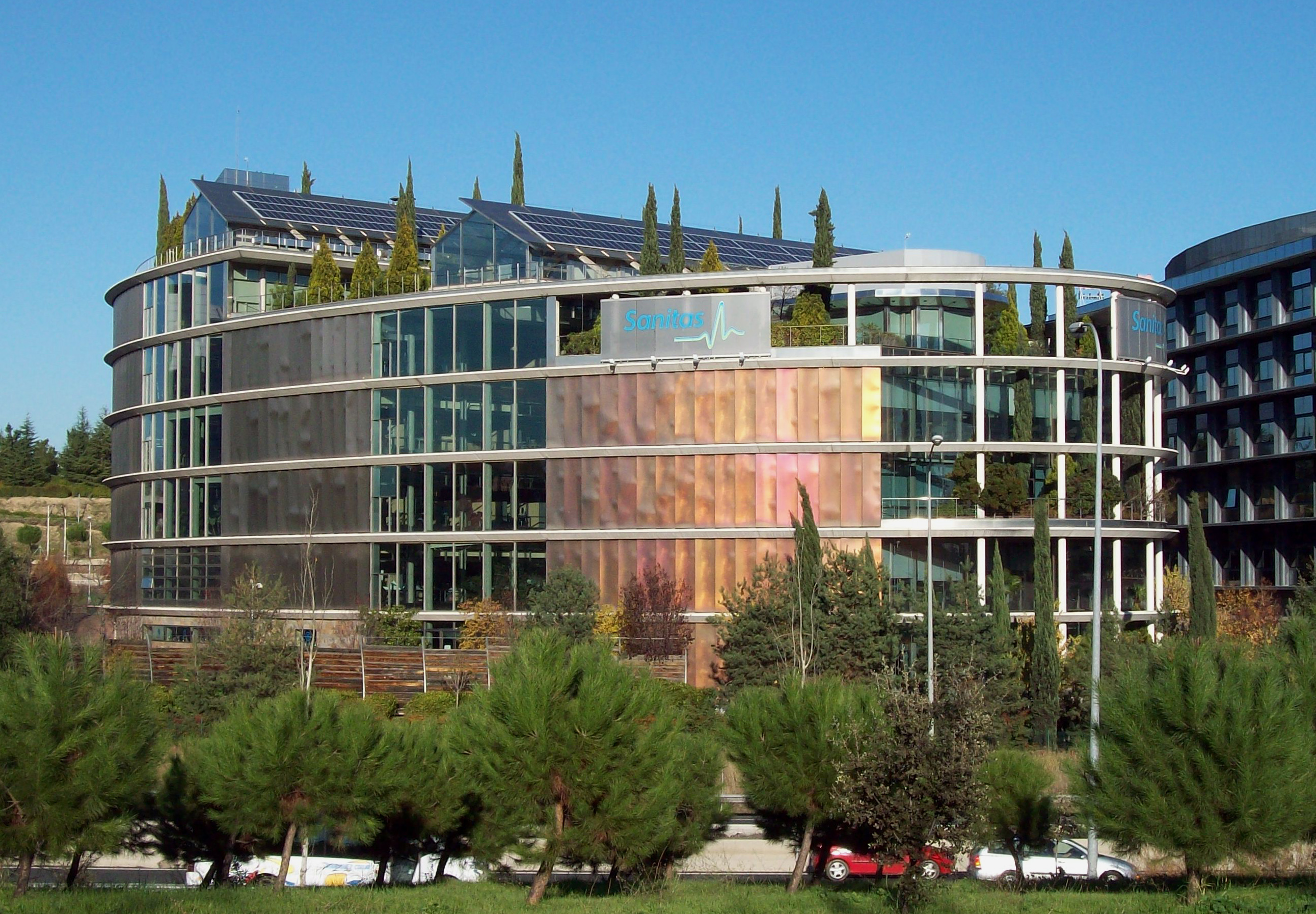 View of Sanitas headquarters in Madrid (Spain).